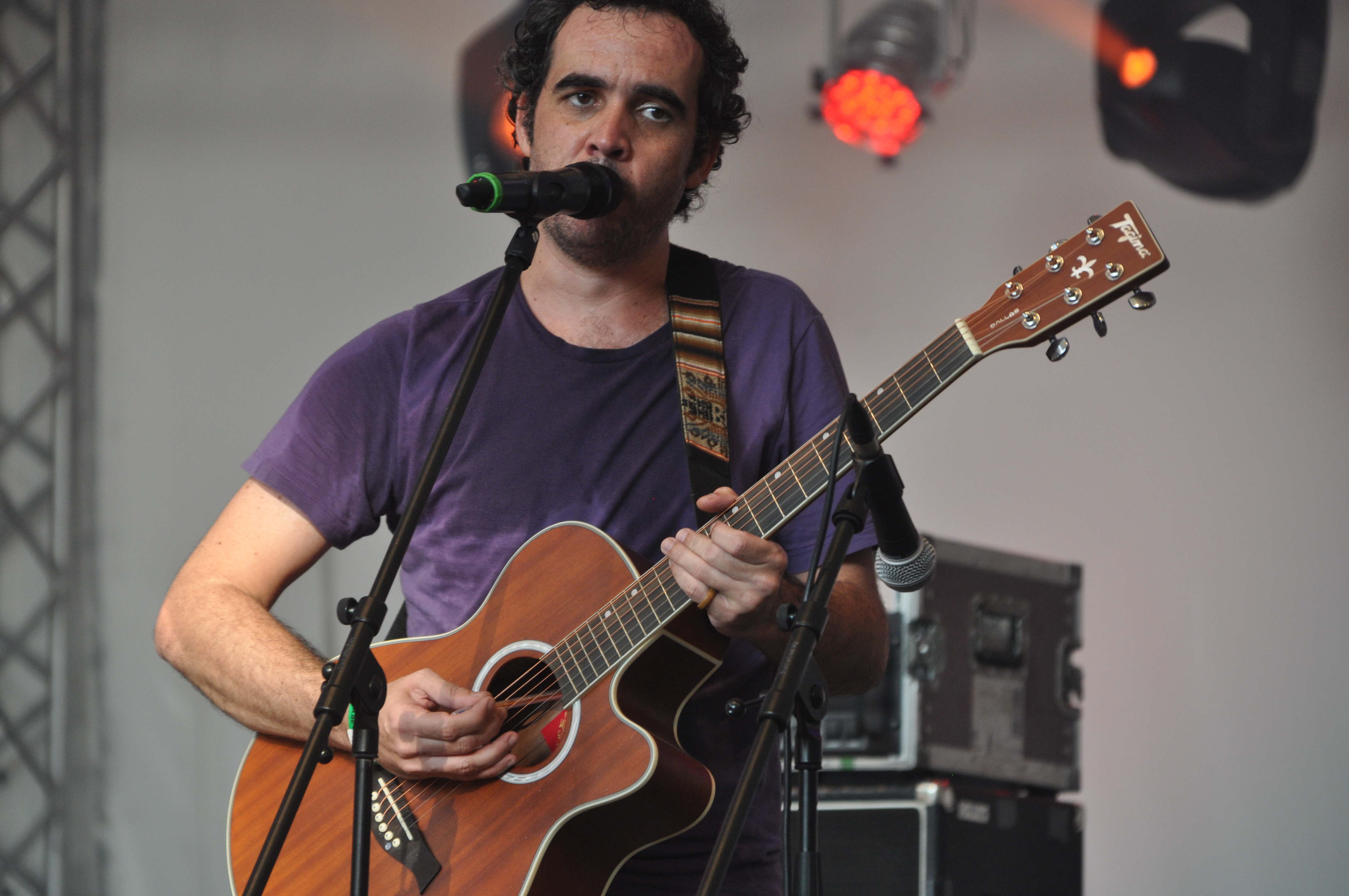 Cabruêra (Brazil), appearence at the 11th world music festival "Horizonte" 2013 at the fortress Ehrenbreitstein, Koblenz, Germany